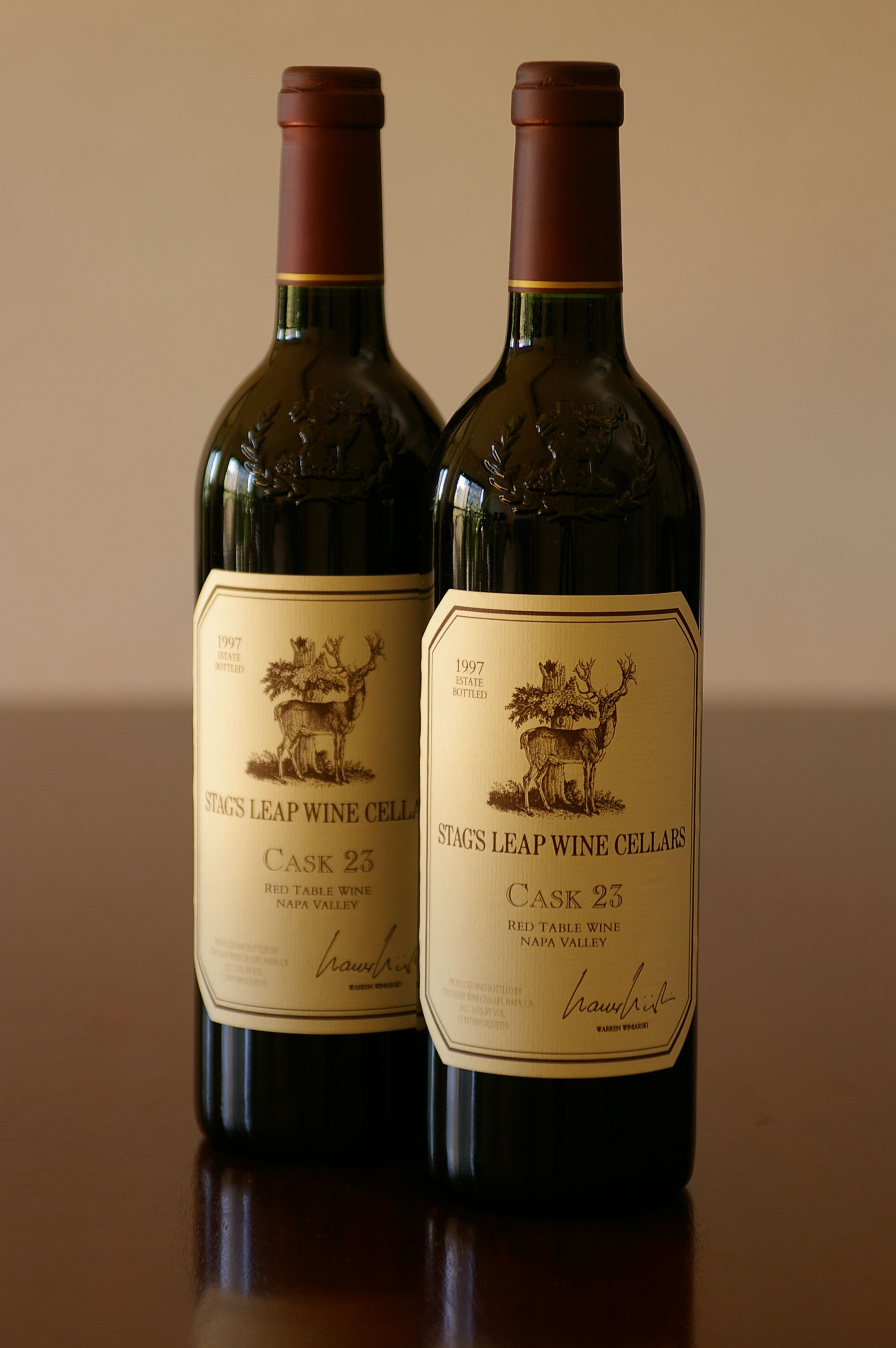 Bottles of the California wine Stag's Leap Wine Cellars from Napa Valley